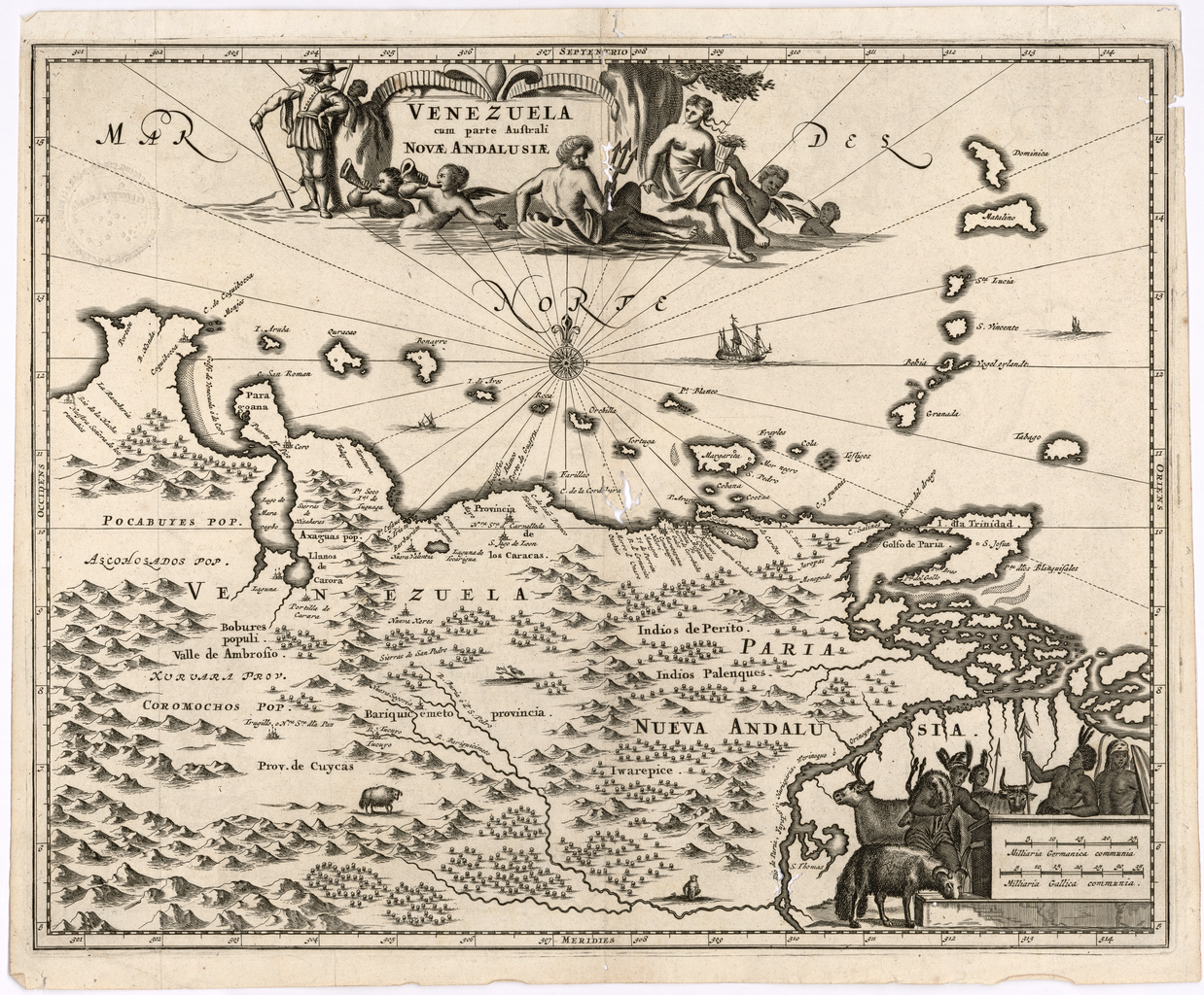 This 17th-century map of Venezuela and a part of New Andalusia, provinces of the Spanish Empire located in present-day Venezuela, is a copy of an earlier map published in Amsterdam by Henricus Hondius (1597–1651). Hondius was the son of Jodocus Hondius (1563–1612), a Flemish cartographer and engraver who settled in Amsterdam in about 1593 and established a business that produced globes and the first large maps of the world. In 1604 Hondius acquired the plates for Mercator’s world atlas and in 1606 published a new edition of this famous work. Following the elder Hondius’s death in 1612, Henricus and his brother Jodocus carried on the family business. With his brother-in-law Johann Jansson, Henricus continued publication of what became known as the Mercator-Hondius atlas. The map is in Latin, with place-names given in Spanish. Shown on the right side of the map are the Orinoco River and the island of Trinidad. The cartouche in the lower right features pictures of native peoples and exotic animals. Two scales are provided, in German and French miles. Spain--Colonies